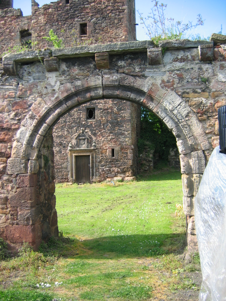 Redhouse Castle, East Lothian